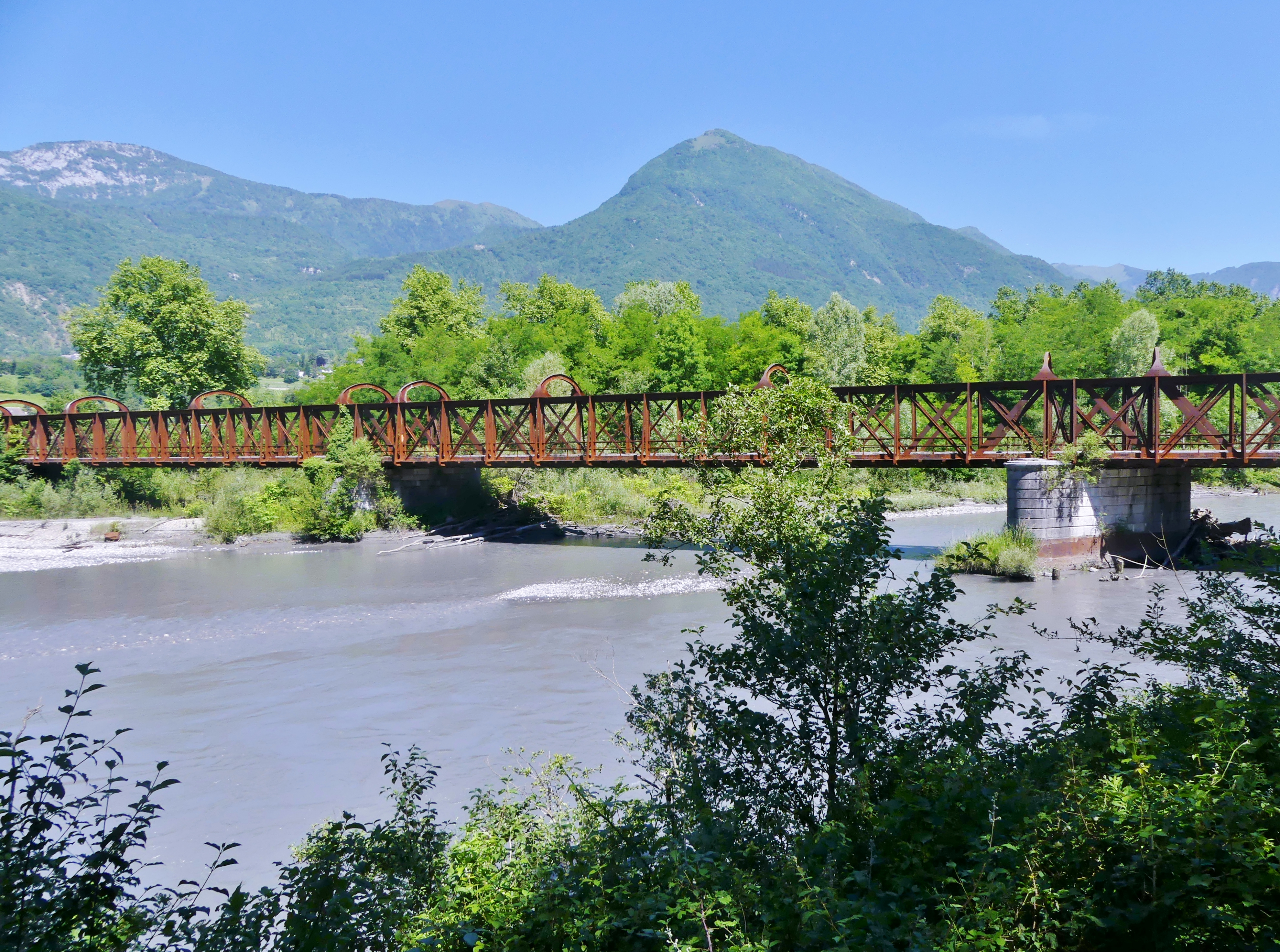 Sight of the Pont Victor-Emmanuel bridge, also called Pont des Anglais, former railway and then road bridge crossing the Isère river, between Chambéry and Albertville in Savoie, France.